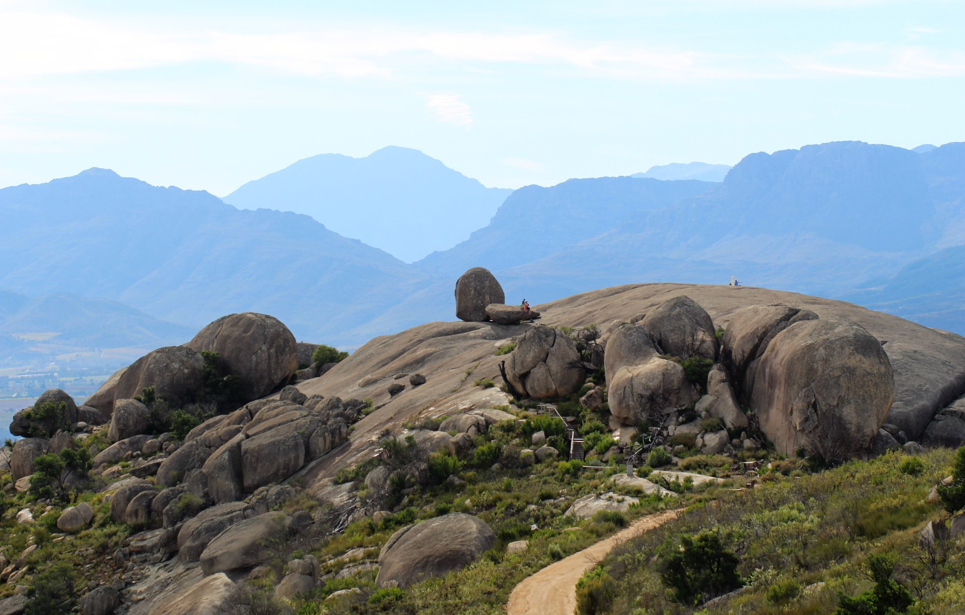 View from Paarl Mountain, South Africa